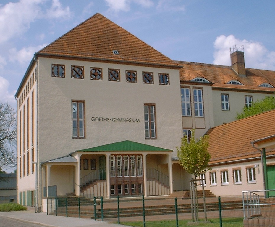 Goethe school in Nauen in Brandenburg, Germany